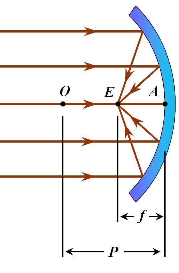 concave mirror